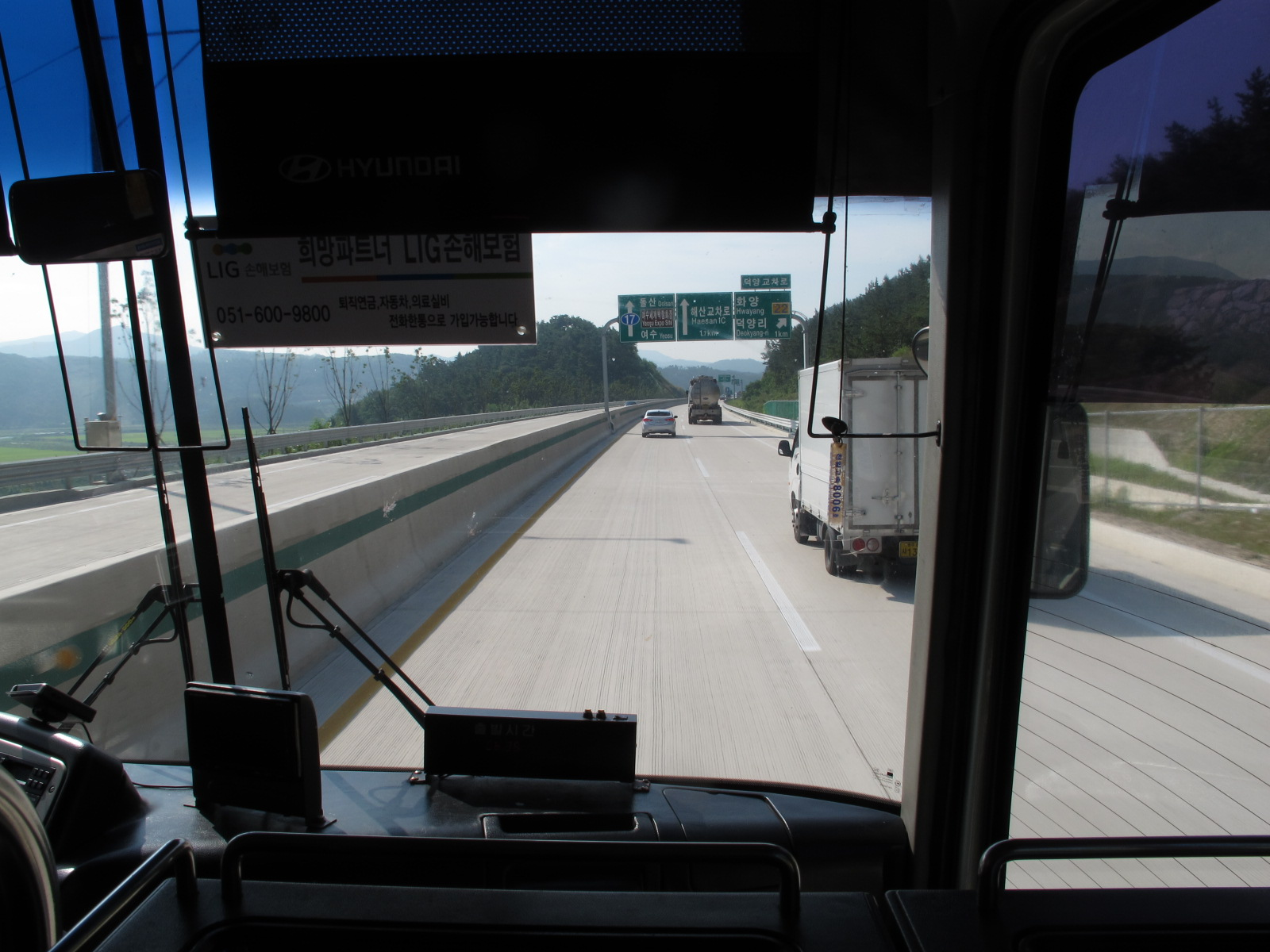 Deokyang IC in St. Expo-Daero